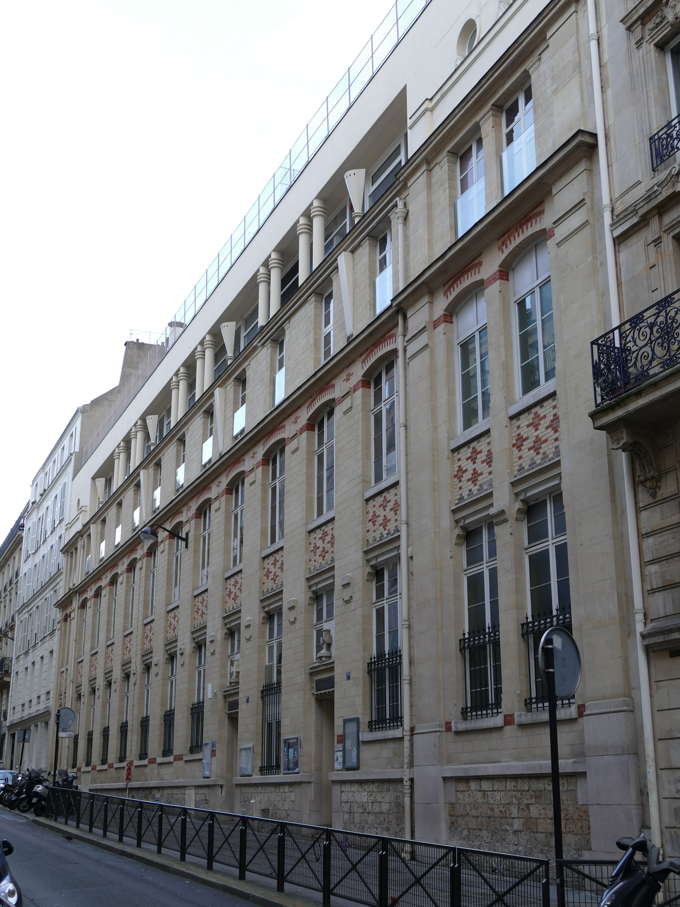 Lycée Fénelon Sainte-Marie in Paris (Île-de-France, France).